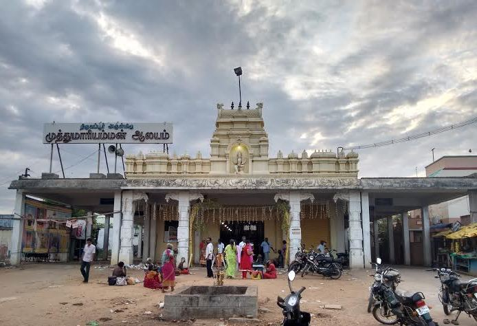 Thiruvarupur muthumariamman temple